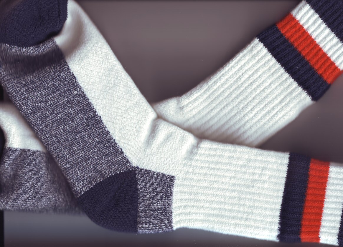 Image of a new pair of socks, created while experimenting with a new scanner